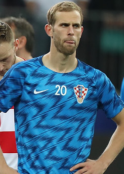 Croatia players react following the loss in the 2018 FIFA World Cup final.